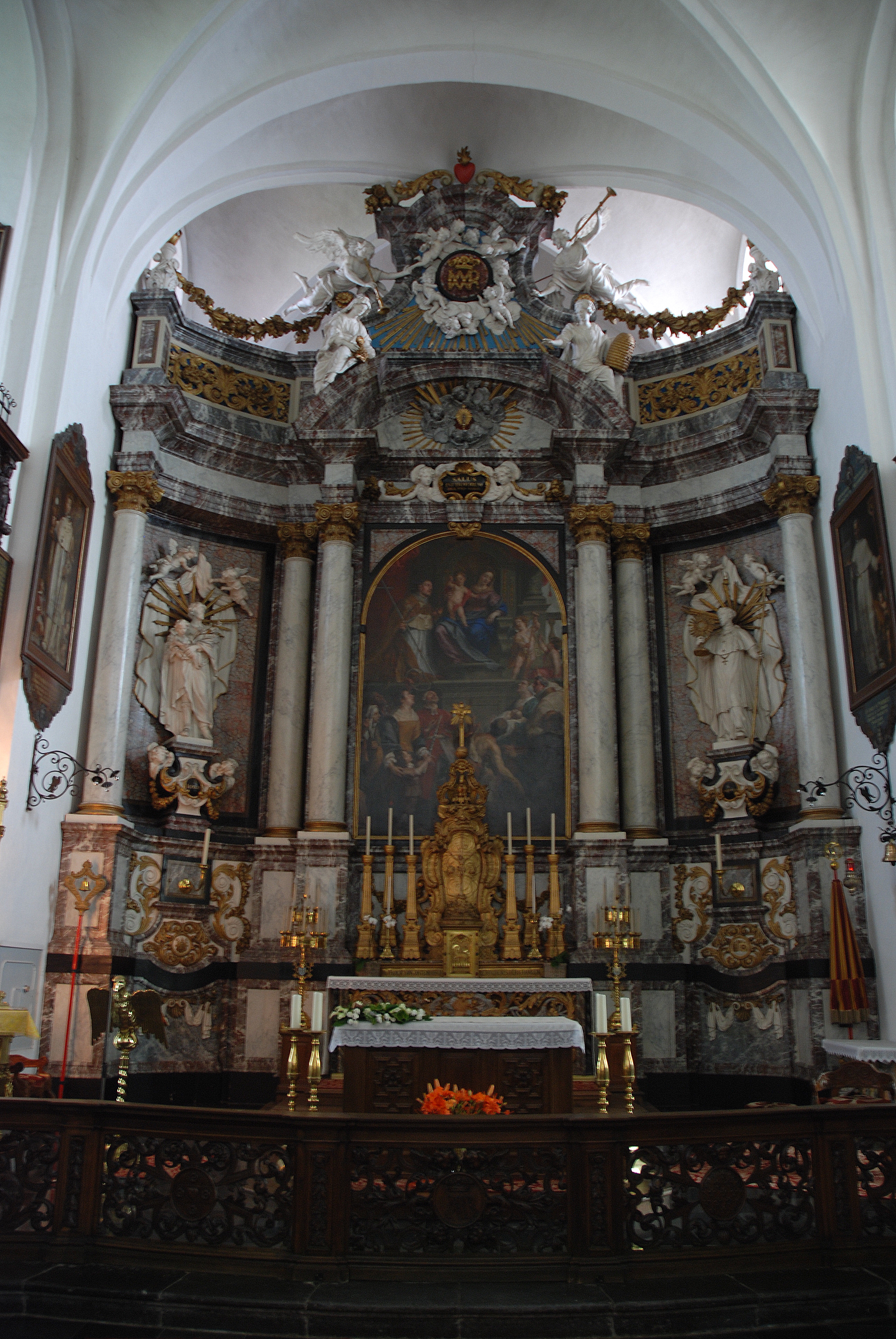 The main altar of the Basilica of Our Lady of Kortenbos in Sint-Truiden (Belgium), made ​​by Pieter Scheemaeckers the Elder